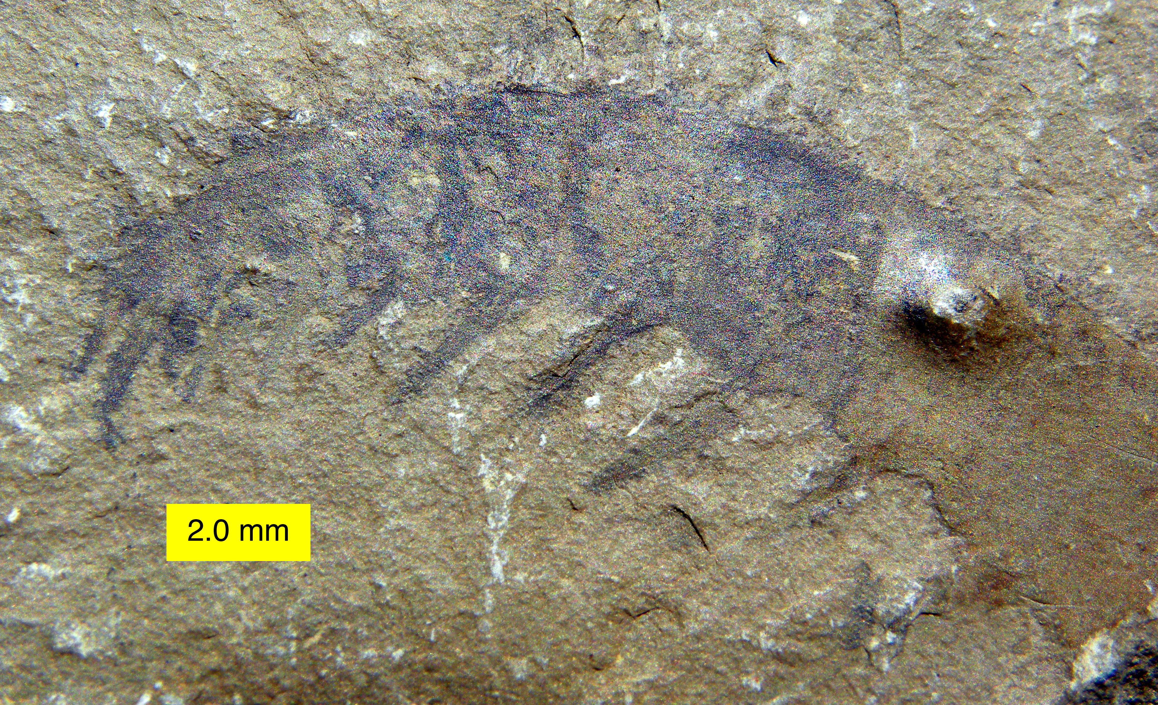 Anomalocaris "arm" from the Mt. Stephen Trilobite Beds, Middle Cambrian, near Field, British Columbia, Canada.